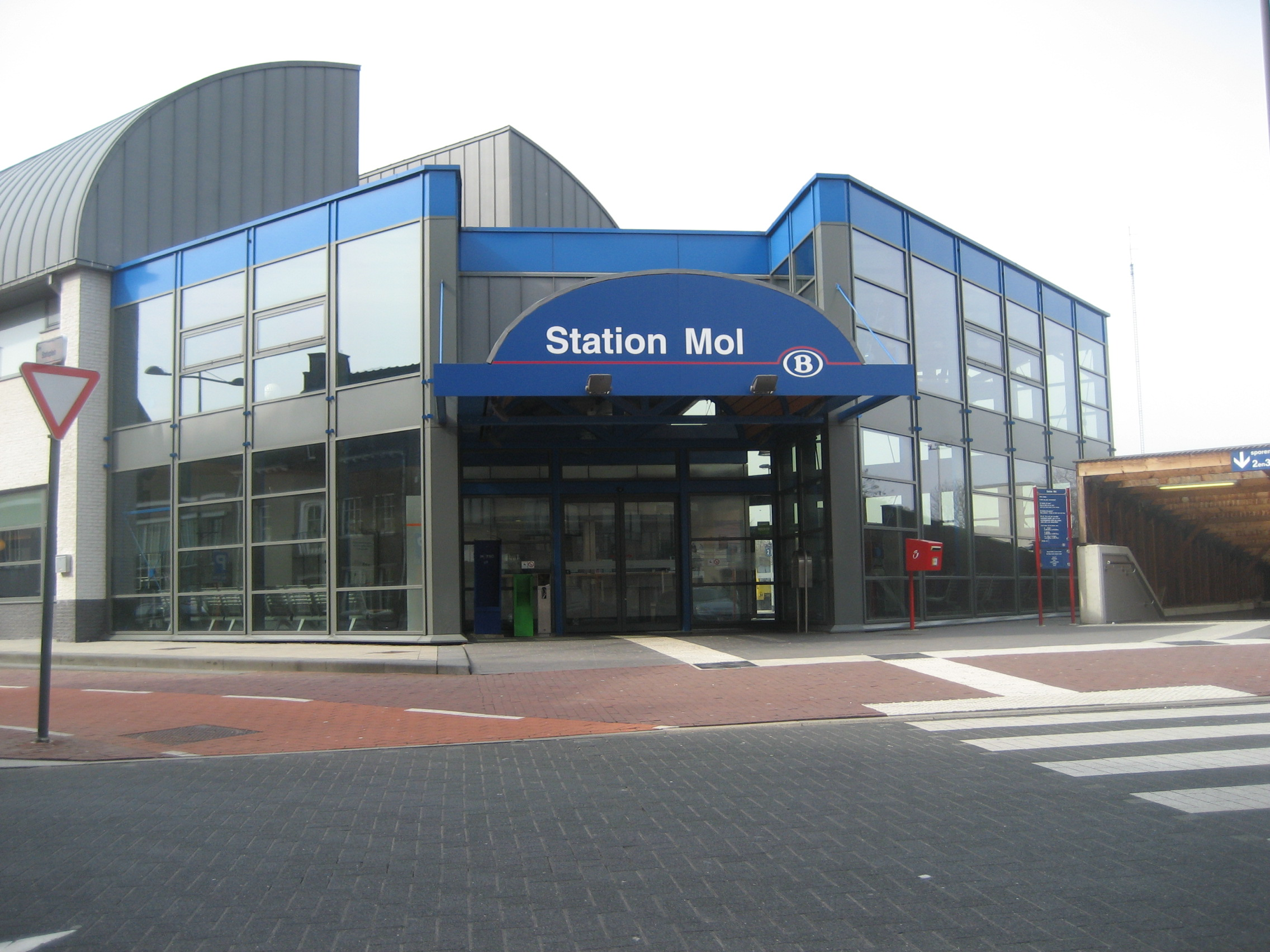 Mol train station